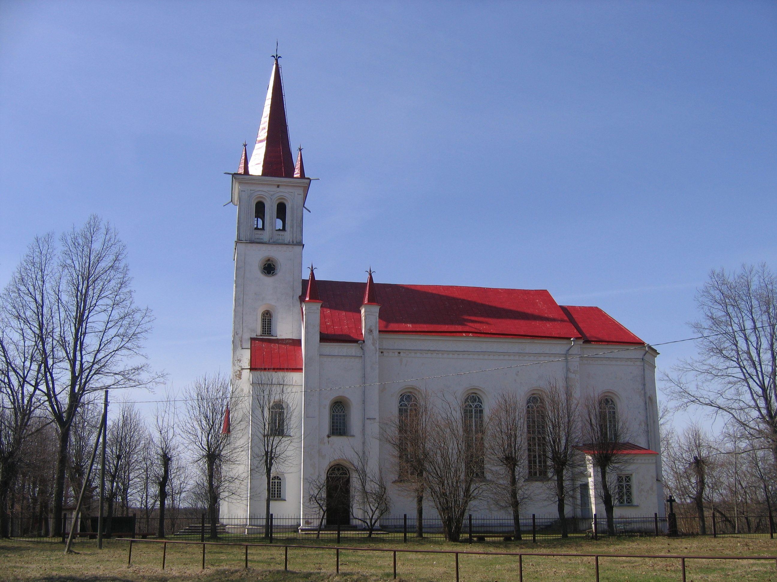 Nīcgale (Neicgaļs) Nativity of the Virgin Mary Roman Catholic Church, Daugavpils municipality, Latvia.